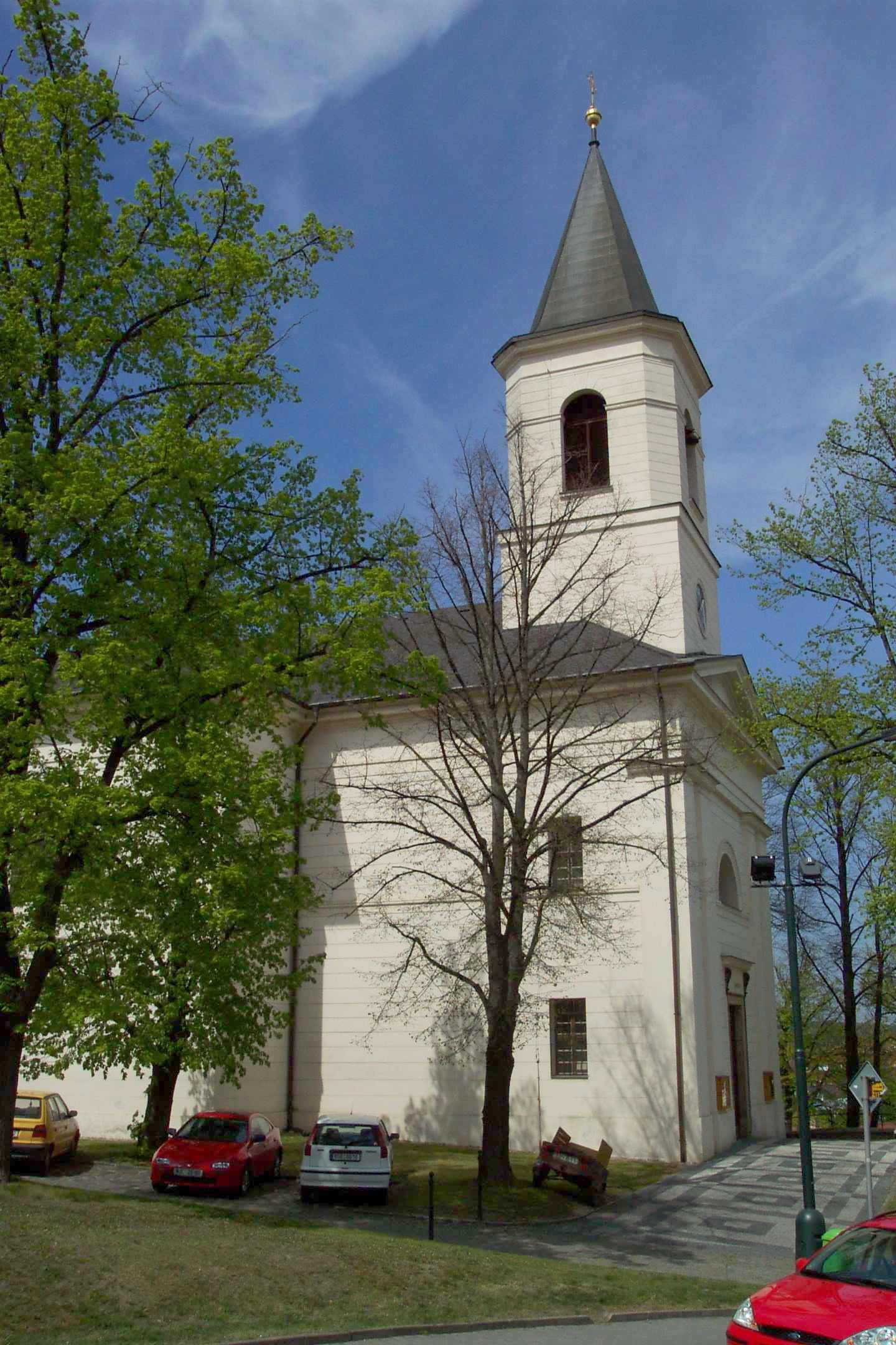 Prague, Liboc, church